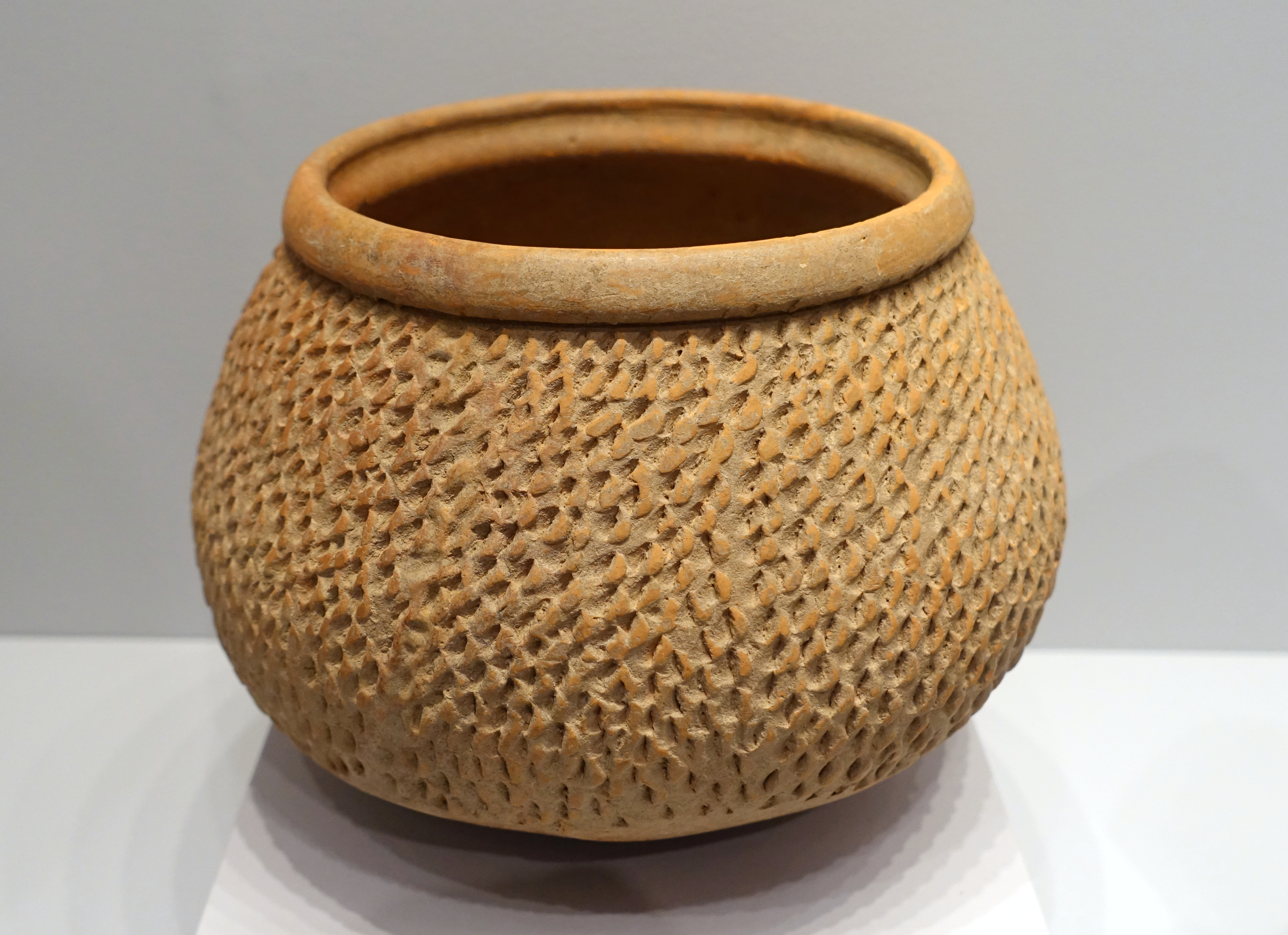 Exhibit in the Arthur M. Sackler Museum, Harvard University, Cambridge, Massachusetts, USA. This artwork is in the public domain because the artist died more than 70 years ago.